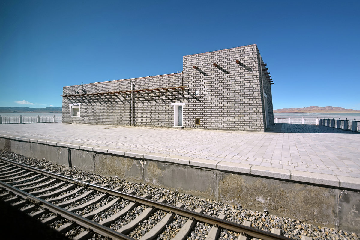 Cuonahu Railway Station, Qinghai-Tibet Railway (altitude 4594m)